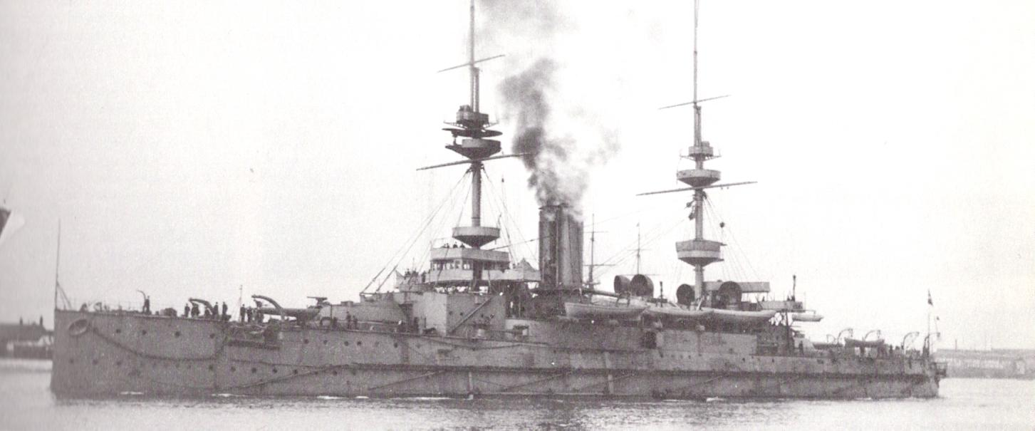 Royal Navy battleship HMS Prince George after her 1904 refit